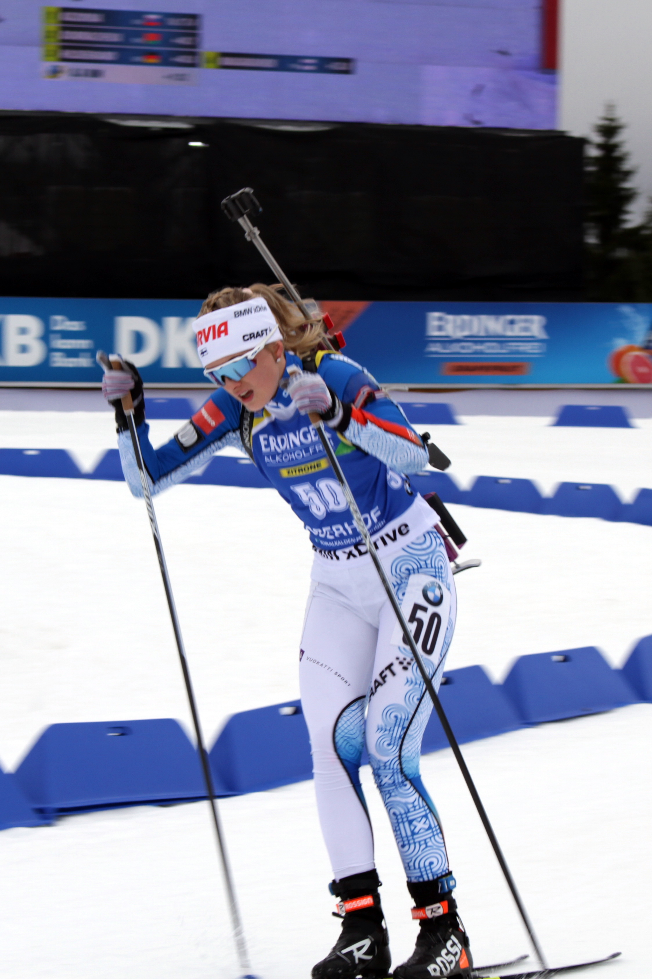 2018 Oberhof Biathlon World Cup - Pursuit Women